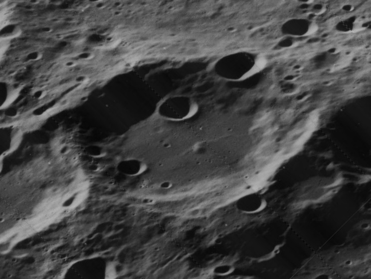 Oblique view of Razumov, on the far side of the moon, facing west.